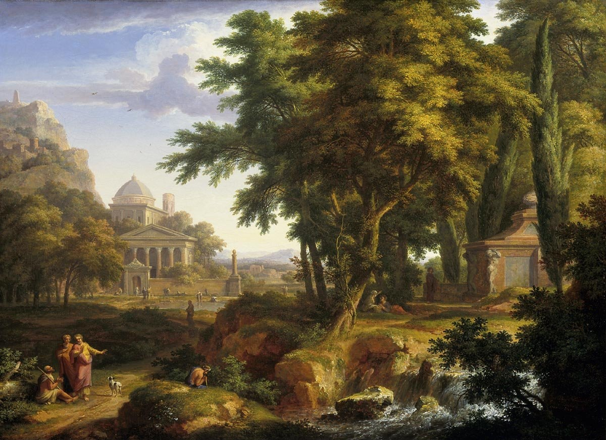 Pendant of File:Arcadian landscape with a bust of Flora, by Jan van Huijsum.jpg